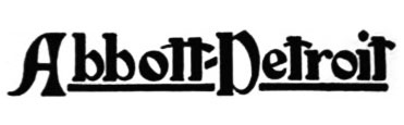 Abbott Motor Company - Abbott-Detroit - Detroit, Michigan - 1912